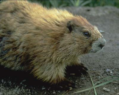 An Olympic marmot (Marmota olympus) in Olympic National Park